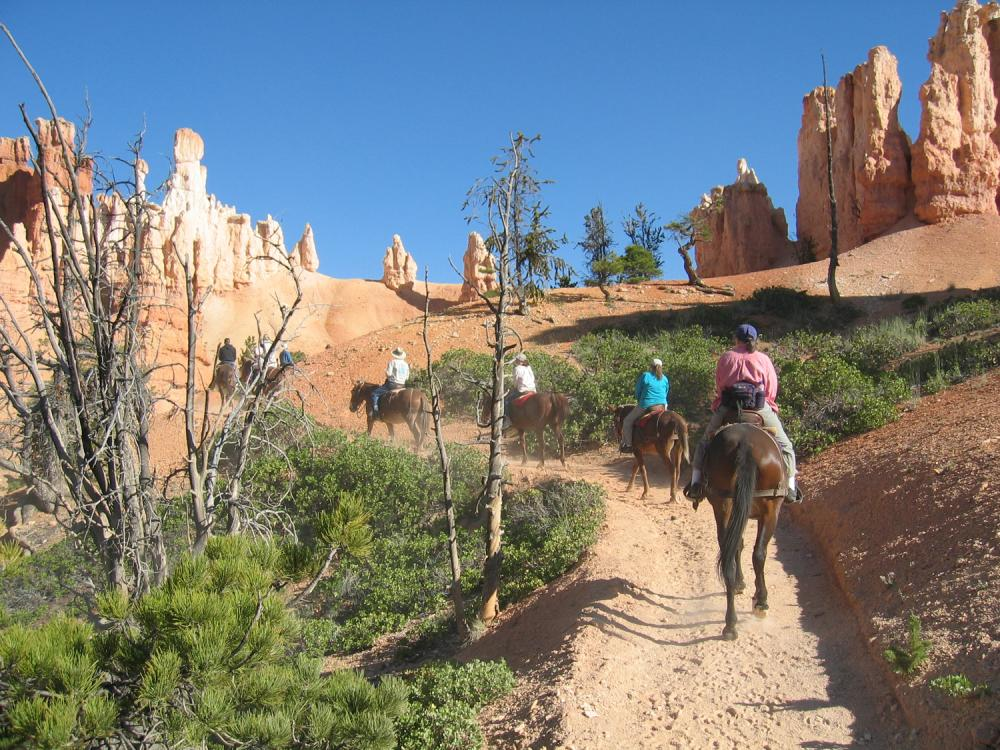 Horse riding in Bryce Canyon National Park, Utah, USA